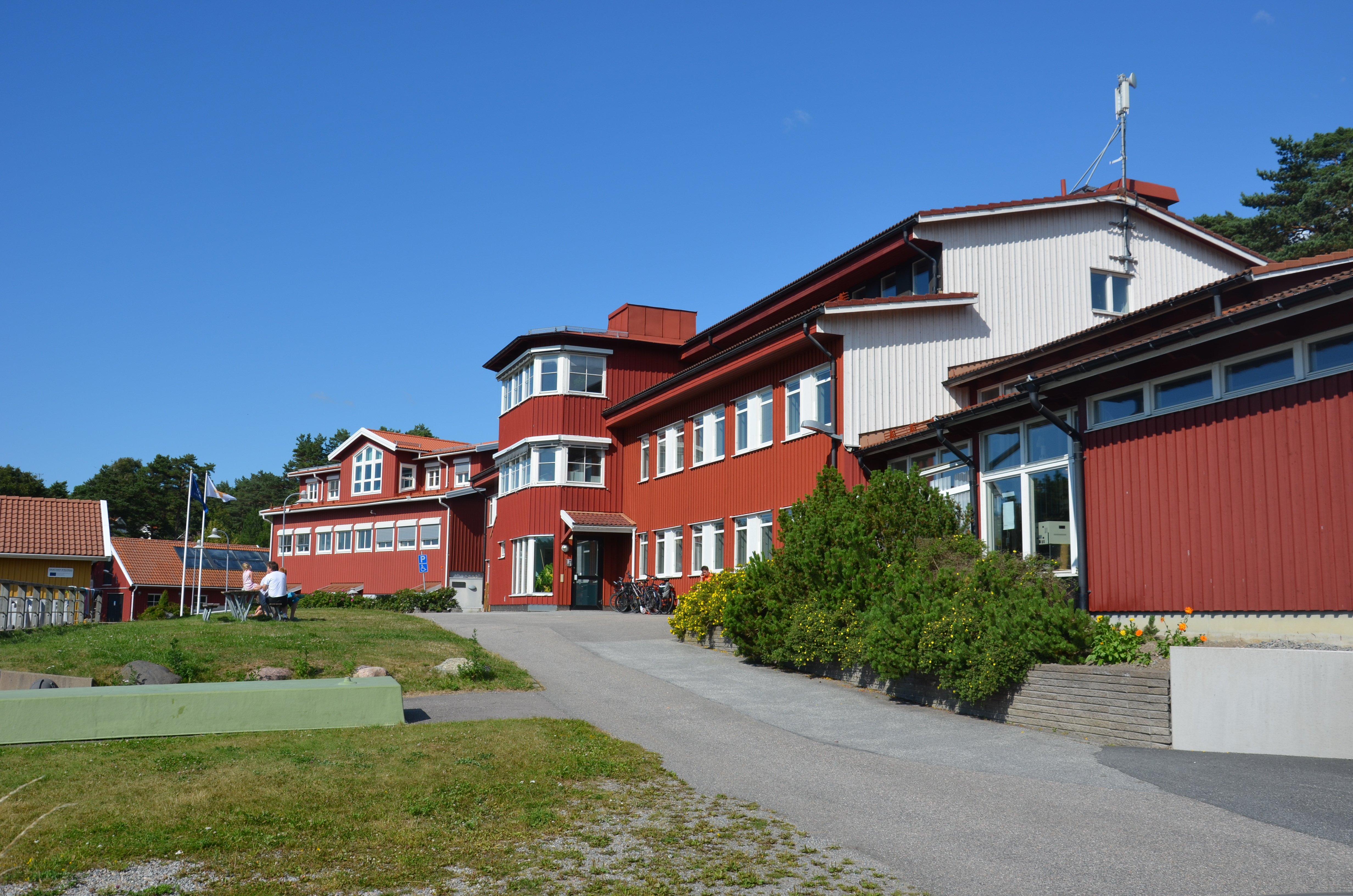 Tjärnö marinbiologiska laboratorium, Strömstad, Sweden